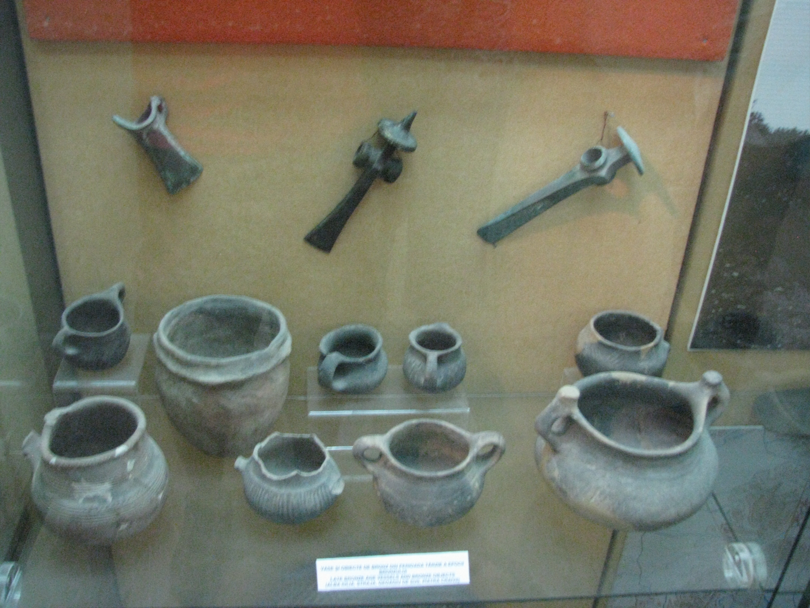 Alba Iulia National Museum of the Union 2011 - Late Bronze Age Vessels and Bronze Objects, from various locations: Alba Iulia, Straja, Geoagiu de Sus, Piatra Craivii